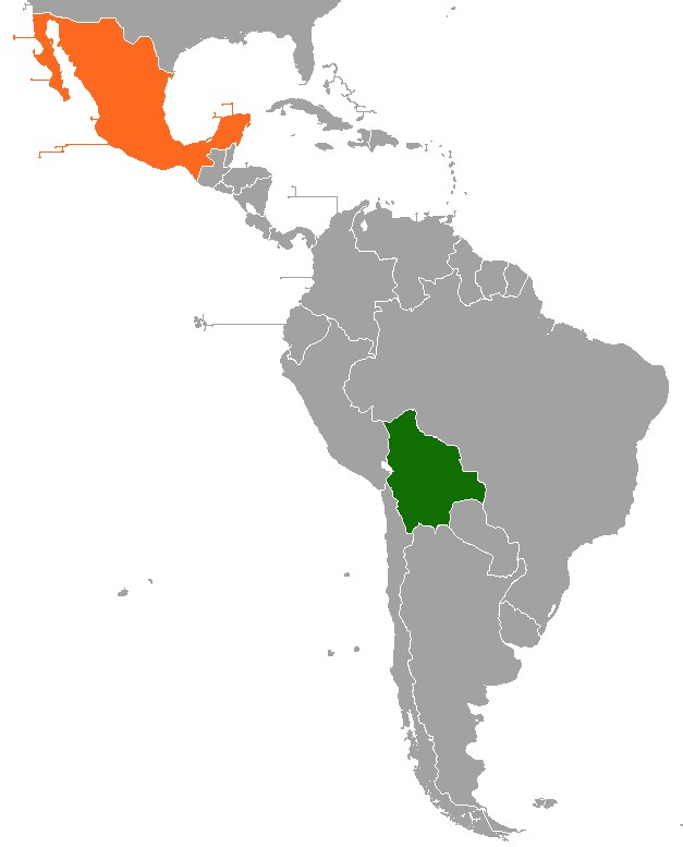 Map showing locations of Bolivia and Mexico